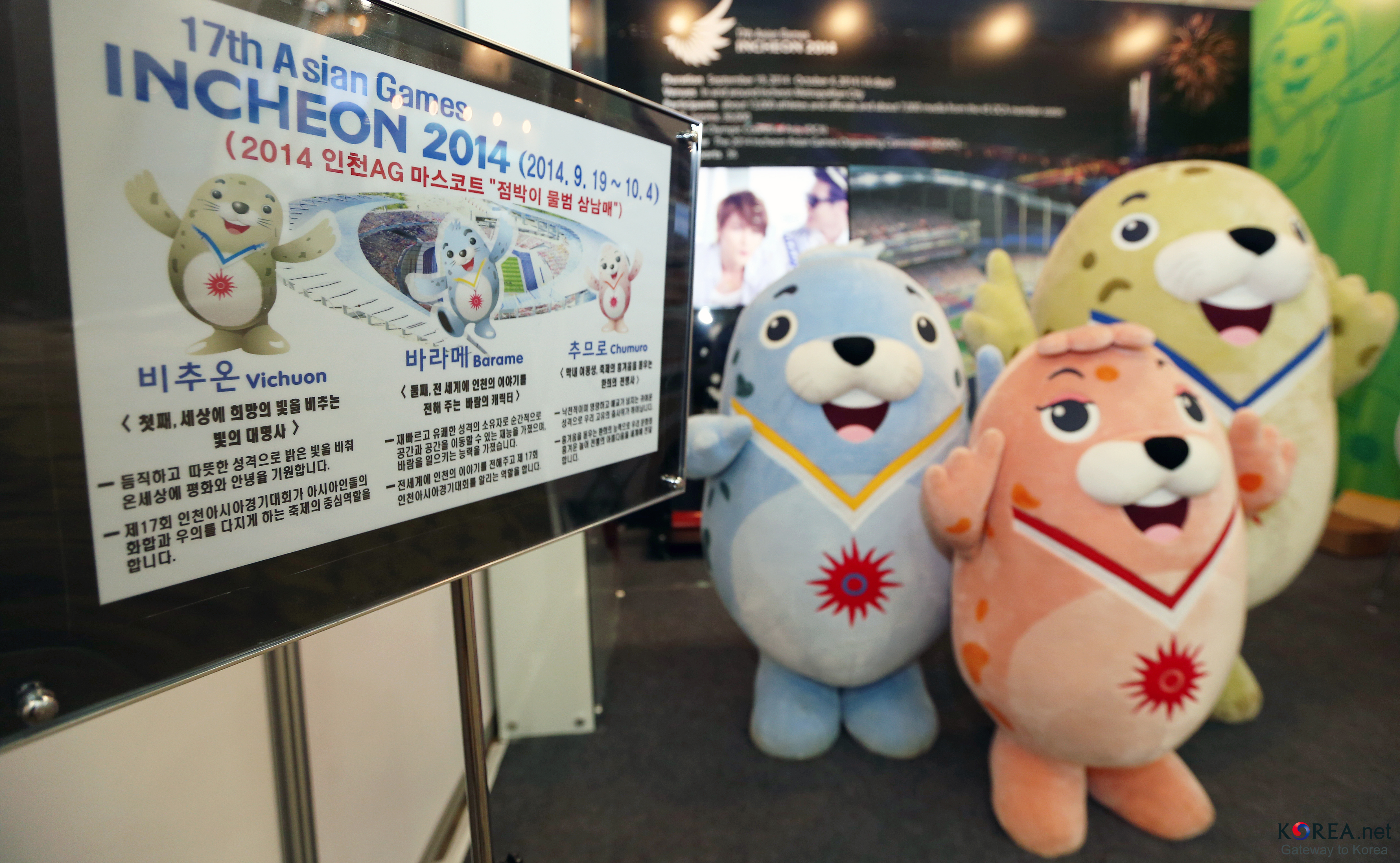 2014 UN Public Service Forum, Day and Awards Cermony June 26, 2014 Kintex, Goyang-si, Gyeonggi-do